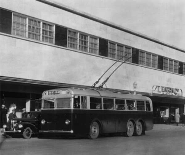 A trolley bus in front of the Eaton's department store, Edmonton, Alberta, Canada. The vehicle was built by Leyland in either 1939 or 1942, Edmonton having purchased three identical such vehicles in each of those years.